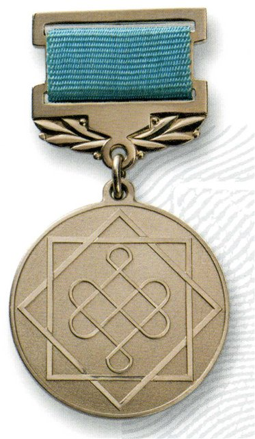 Breastplate "For merits in development of a science of Republic Kazakhstan"